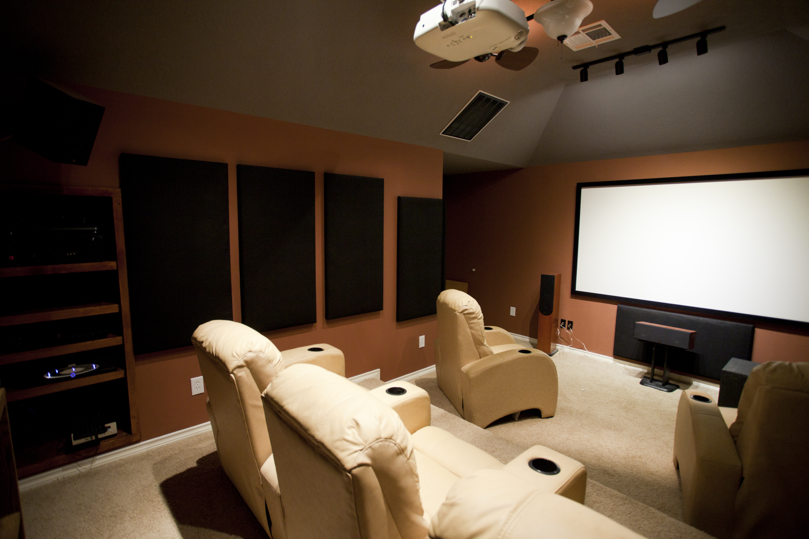 Dedicated Home cinema room build. Acoustic treatment, good screen, projector, seating with cupholders, equipment rack, in-wall wiring.